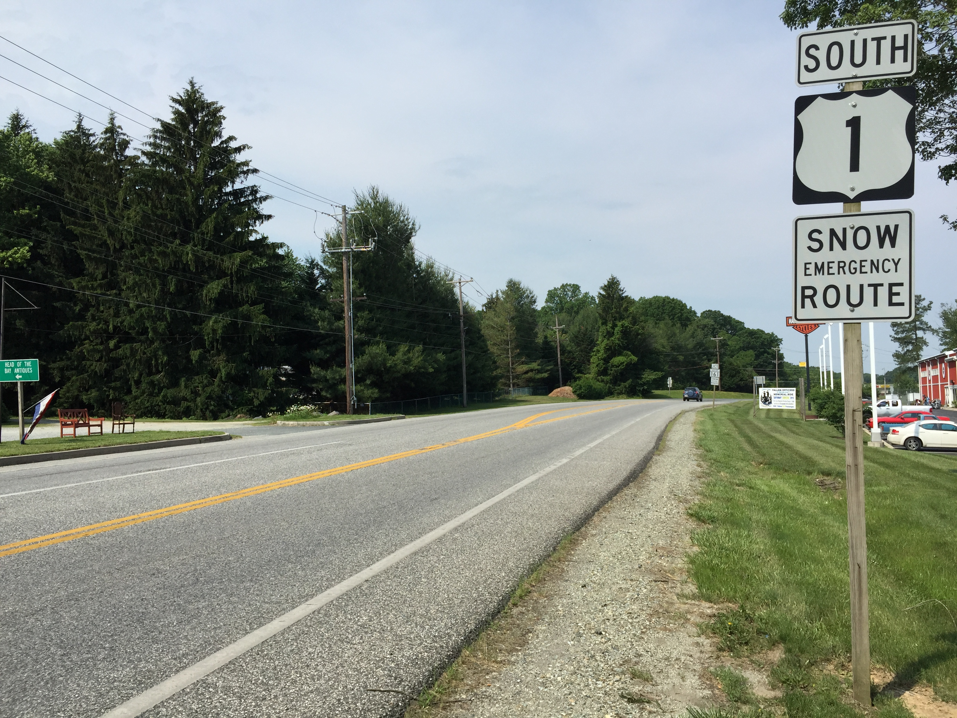 View south along U.S. Route 1 (Conowingo Road) at Castleton Road (Maryland State Route 623) in Darlington, Harford County, Maryland